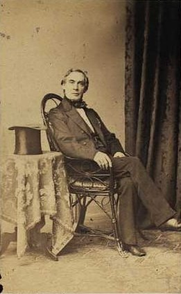 Danish Minister of Schleswig, and later Minister of Holstein and Lauenburg Harald Iver Andreas Raasløff (1810-1893)